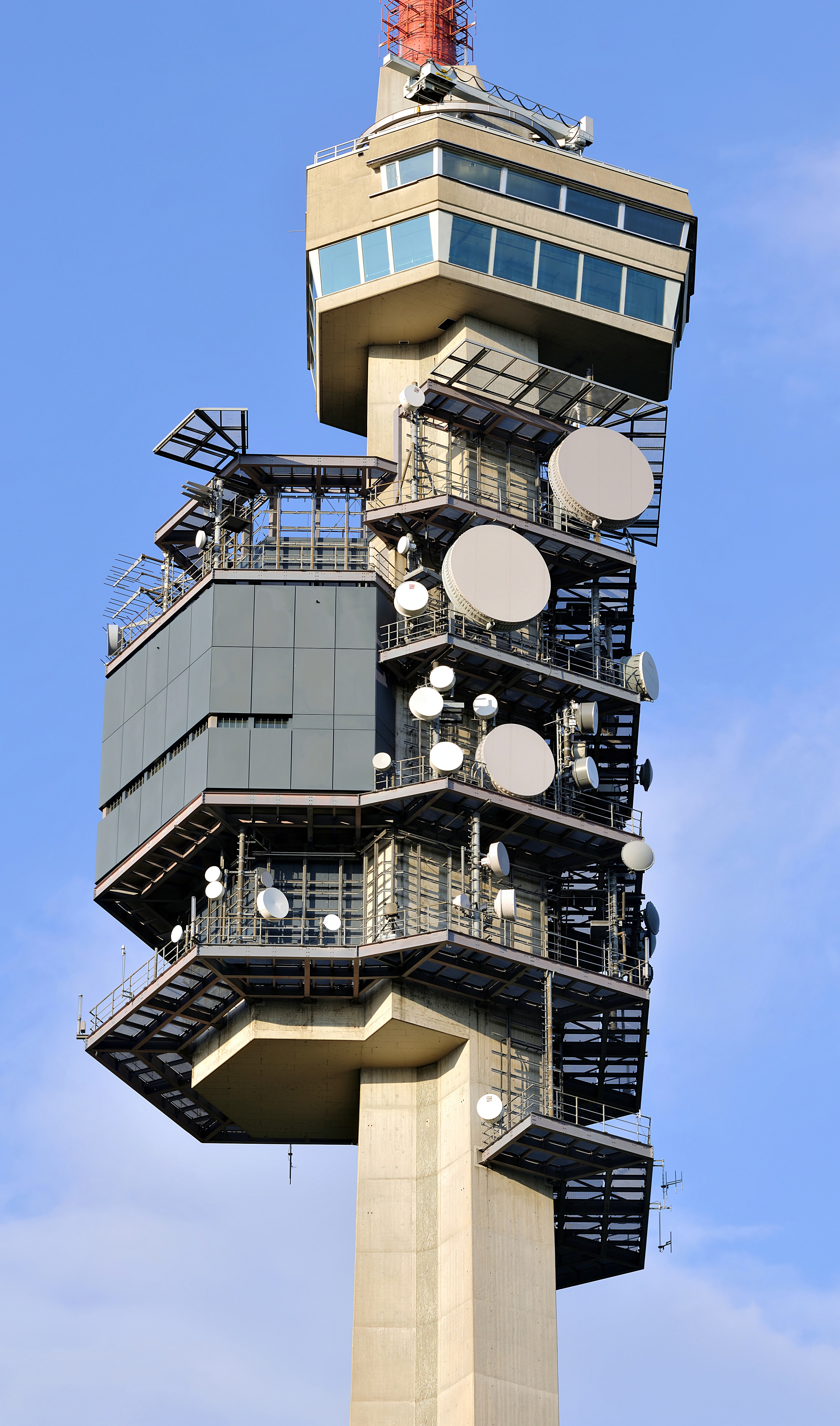 Bettingen: St. Chrischona Television Tower: mainpod